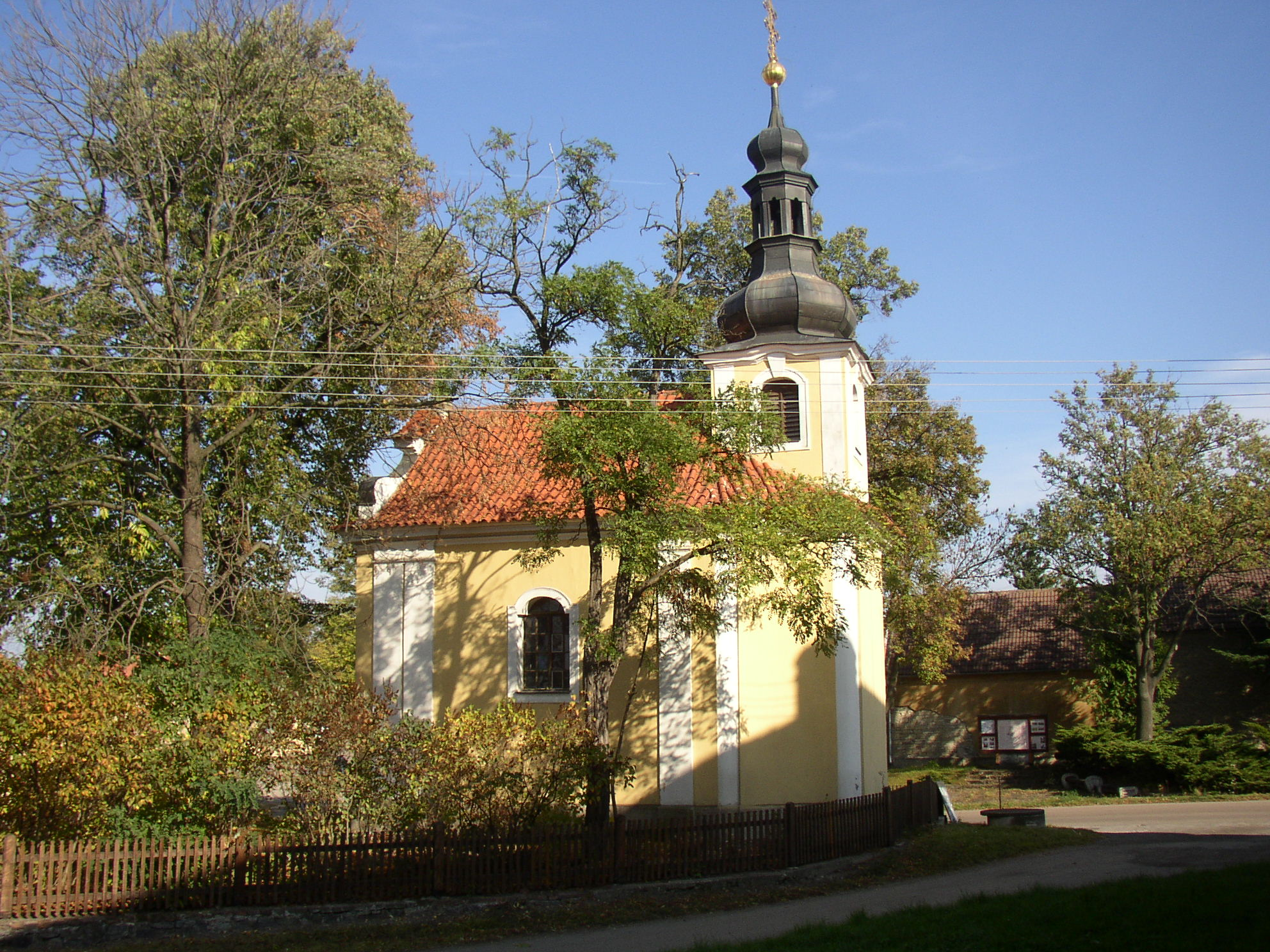 Dobrovíz, Prague-West District, Czech Republic. Chapel of Virgin Mary in centre of the village. A side view from WSW.